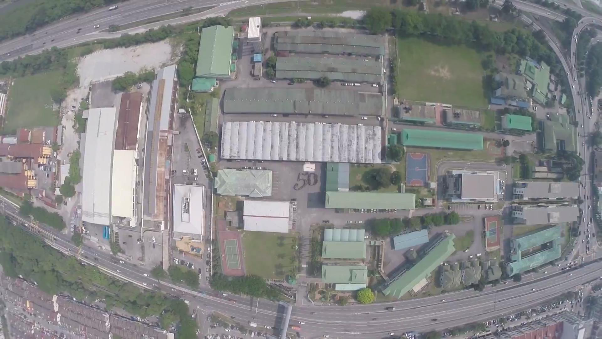 captured from air by helicopter